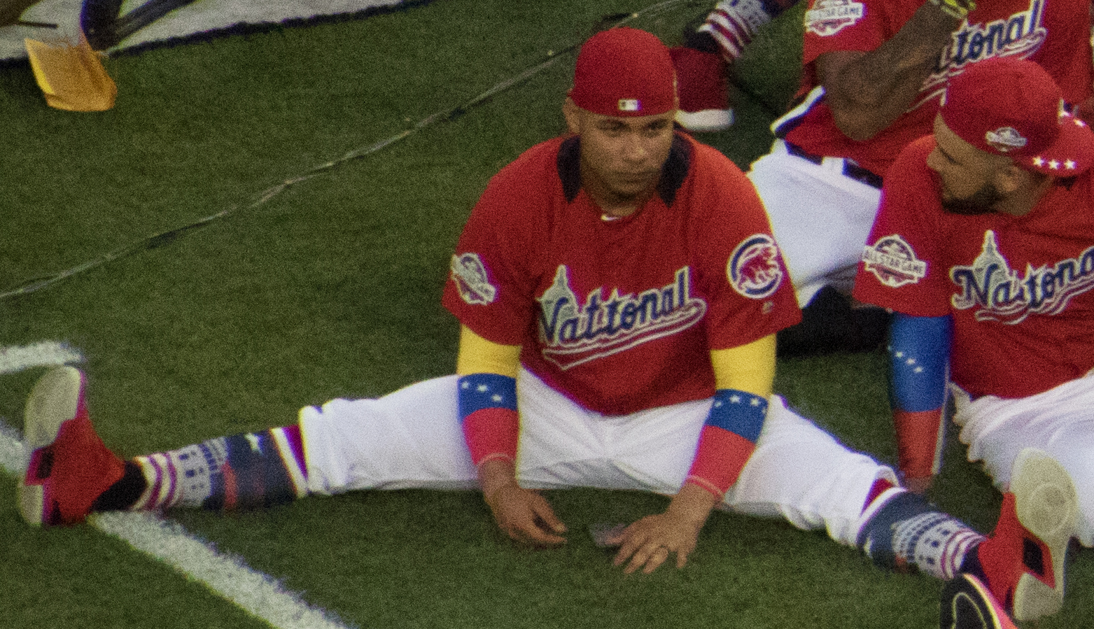 Members of the 2018 National League All-Star Team during the 2018 Major League Baseball Home Run Derby at Nationals Park.